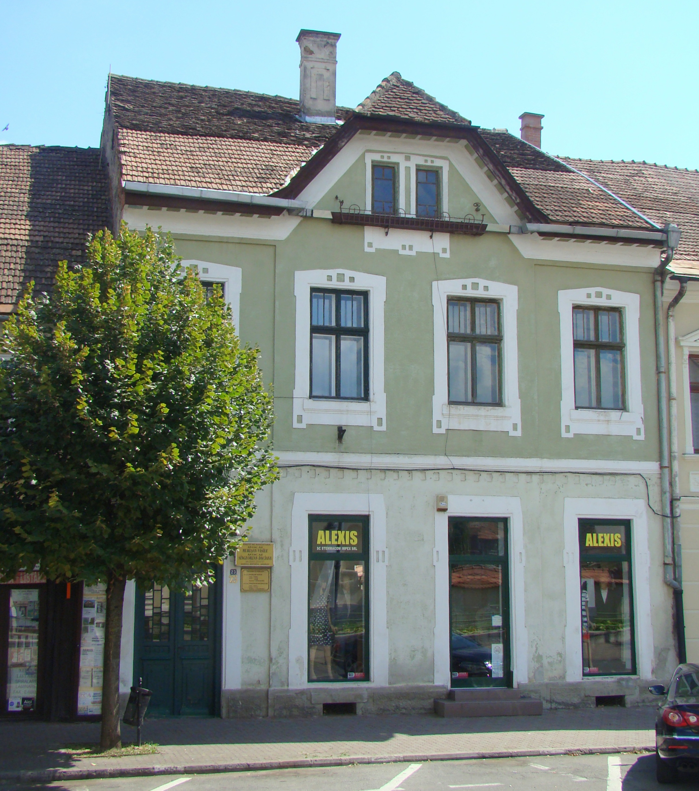 House, historic monument, in Bistrița, Gheorghe Șincai street 23